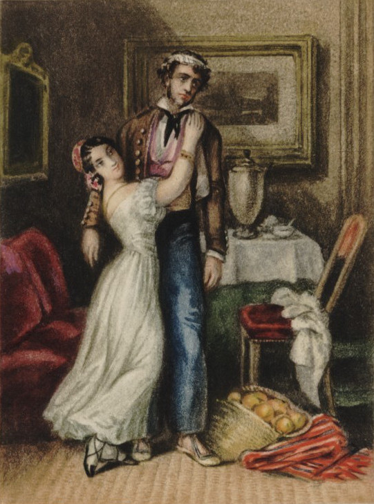 Watercolor by Prosper Mérimée of a scene from his novella "Carmen"